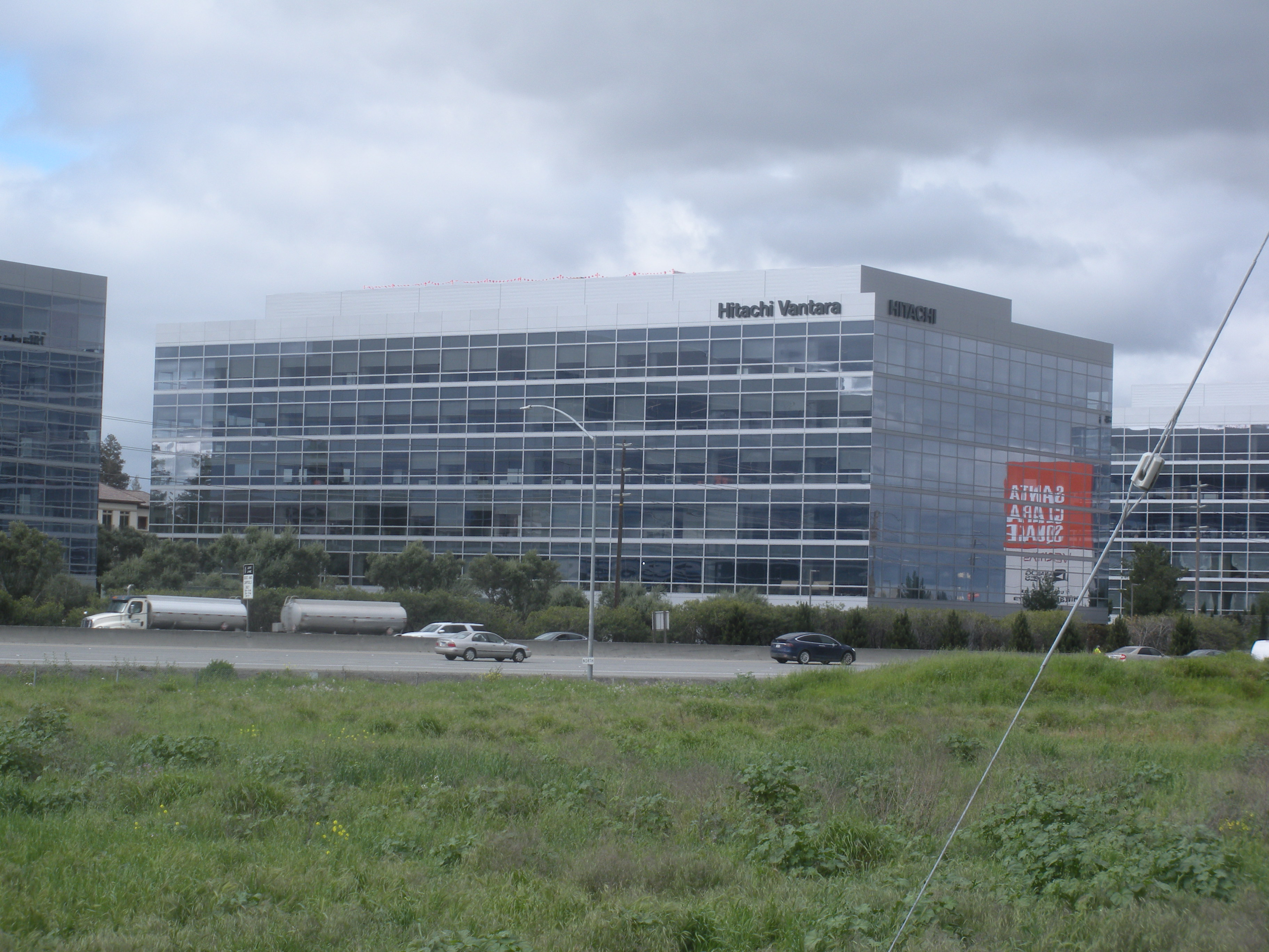 This is the Hitachi Vantara headquarters in Santa Clara, California. Originally posted to my Flickr